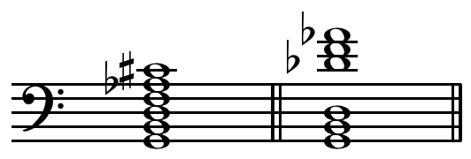 G7(119) vs D b G {\displaystyle {\frac {Db}{G } chord. Created by Hyacinth (talk) 23:32, 10 July 2011 (UTC) using Sibelius 5. See: File:G7(sharp11b9)_vs_Db_over_G_chord.mid